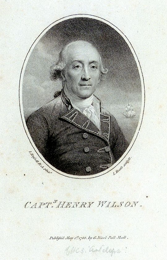 Portrait of Henry Wilson (1740–1810), English naval captain of the British East India Company.